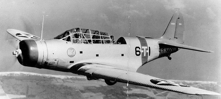 The U.S. Navy Torpedo Squadron 6 (VT-6) commanding officer's Douglas TBD-1 Devastator aircraft from the aircraft carrier USS Enterprise (CV-6), photographed in 1938. This aircraft, Bureau Number 0322, was lost in an accident at sea on about 10 March 1939.